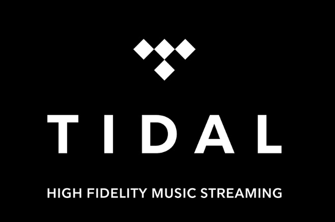 Logo for TIDAL